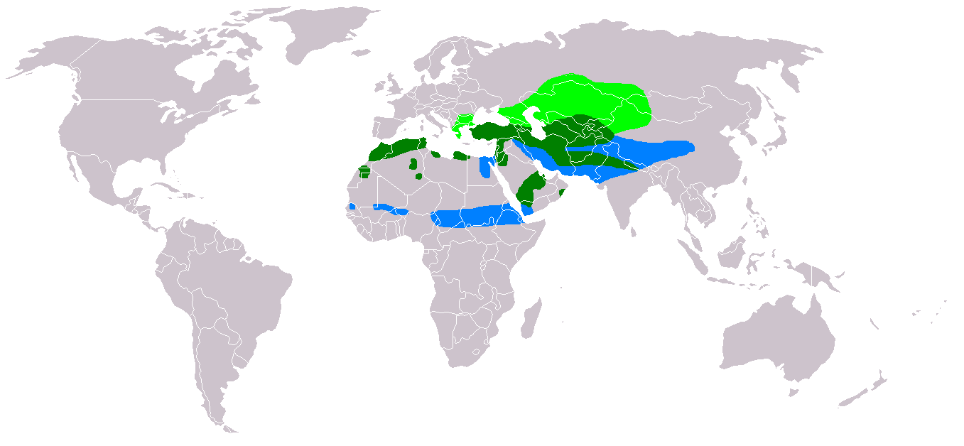 Distribution of Buteo rufinus nesting area resident all year wintering area